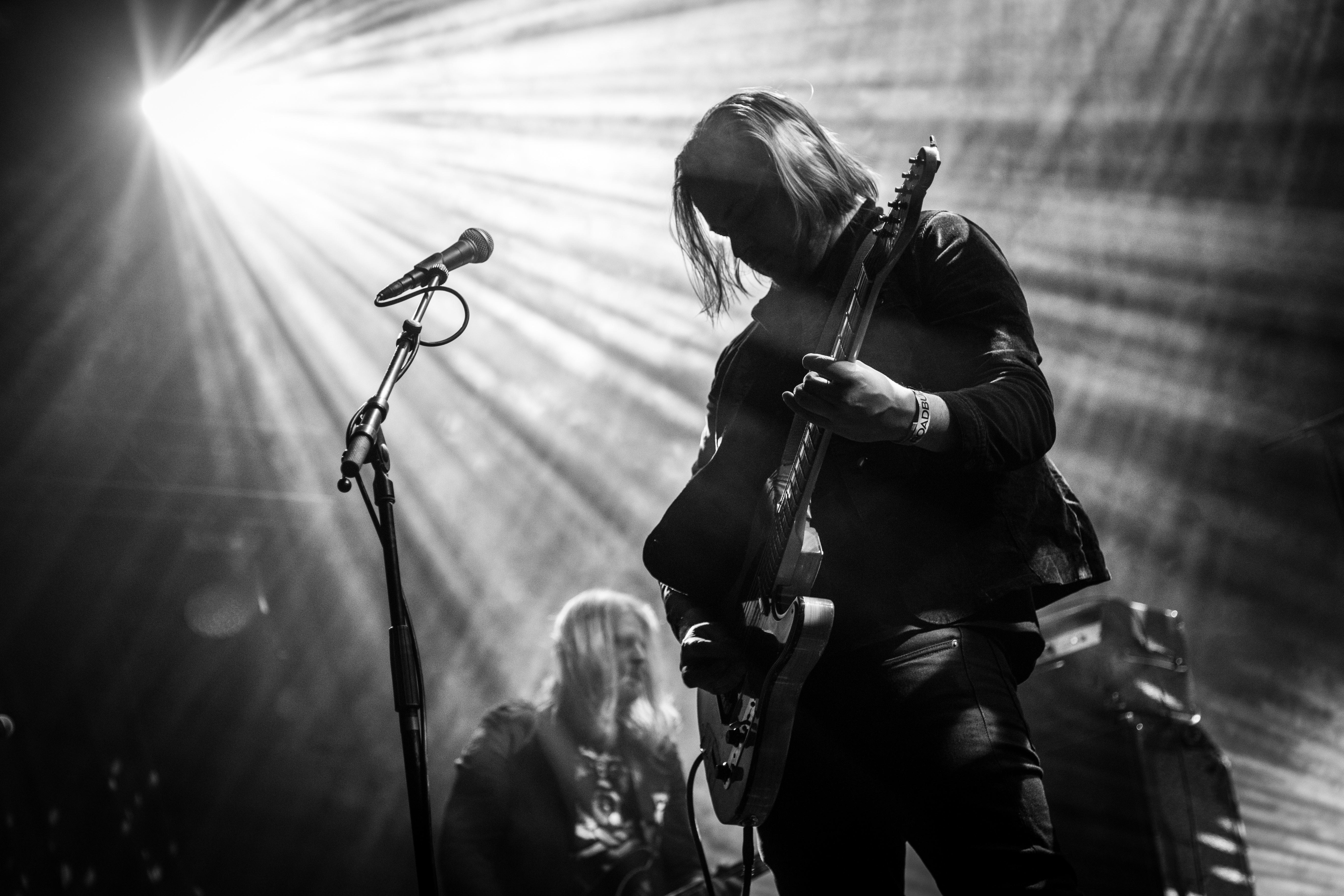 Oranssi Pazuzu live at Roadburn Festival, Tilburg, April 2017